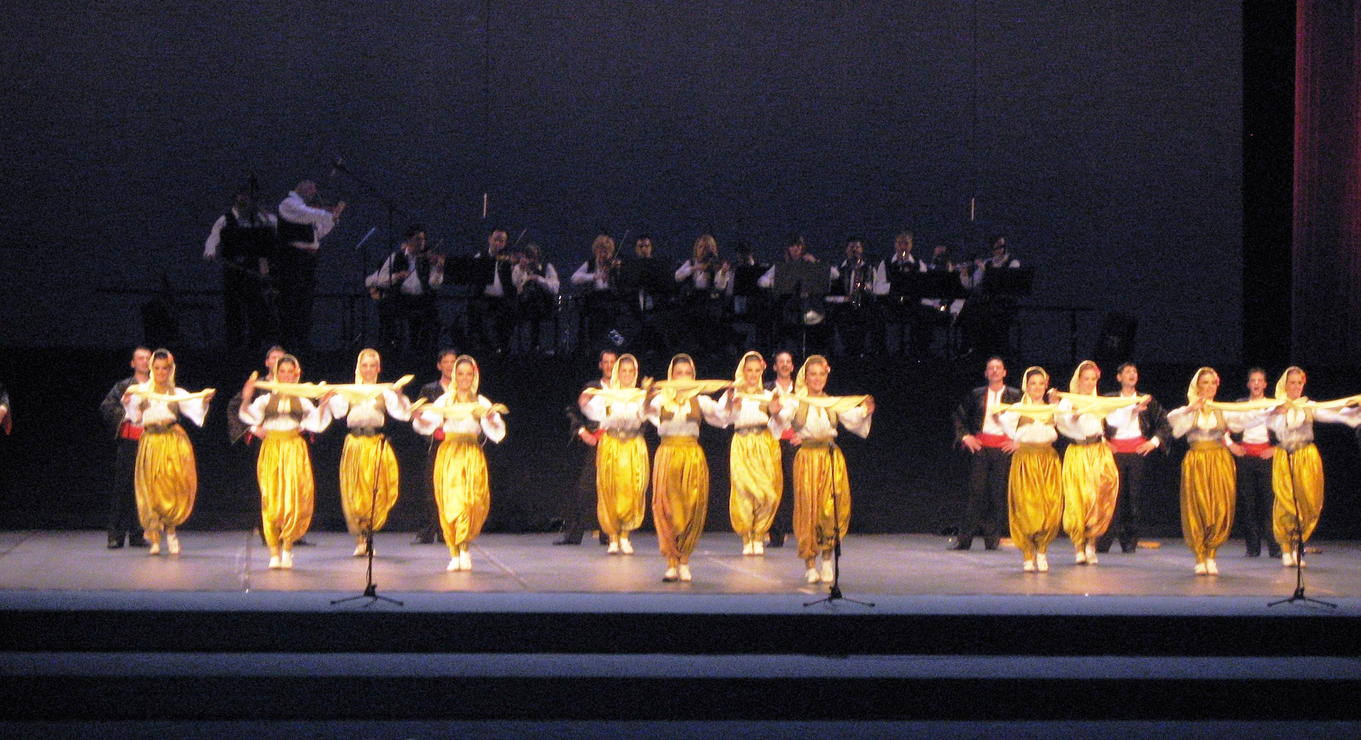 Serbian kolo